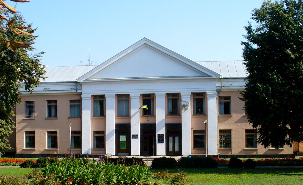 Das Rathaus in Chorol